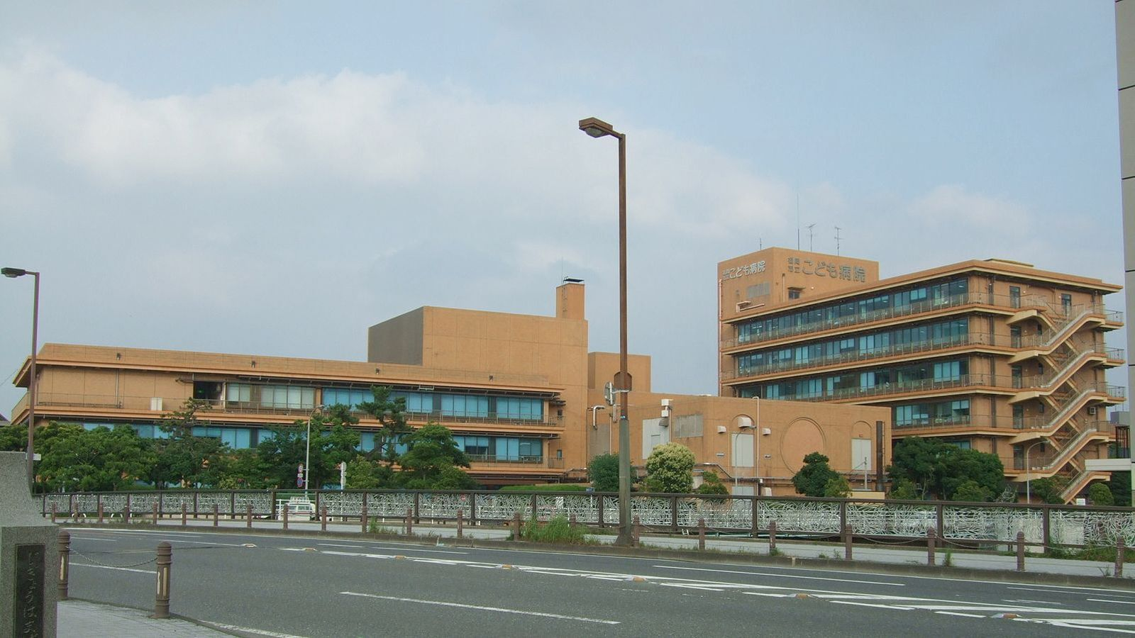 Fukuoka Children's Hospital and Medical Center for Infectious Diseases